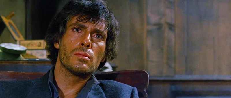 Robert Woods in La taglia è tua... l'uomo l'ammazzo io (1969)